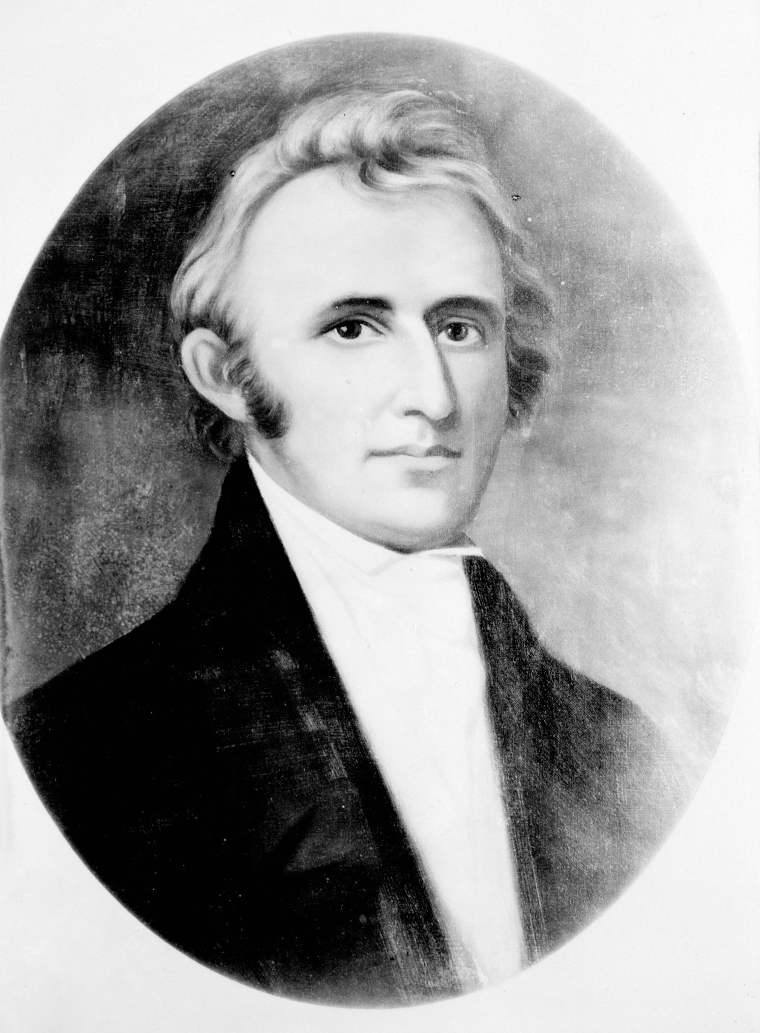 Hutchins Gordon Burton, 1824 - 1827 From the Barden Collection, State Archives of North Carolina, Raleigh, NC.